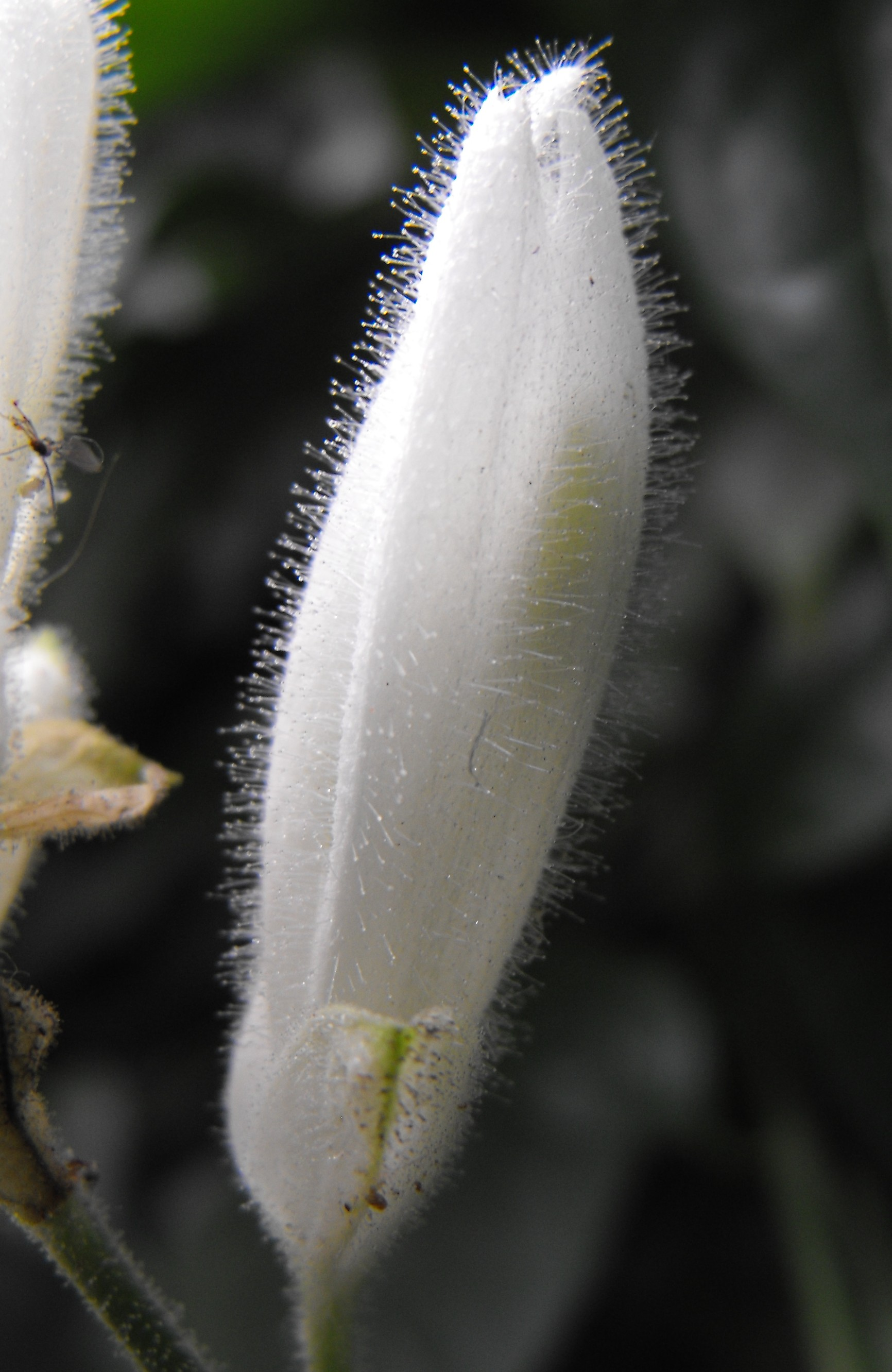 Whitfieldia longifolia 'White Candles' at the Huntington Library & Botanical Gardens in San Marino, California, USA. Identified by sign.